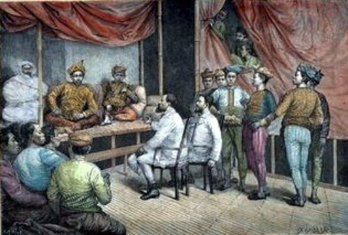 Conversations of the Sultan of Sulu with French Visitors.